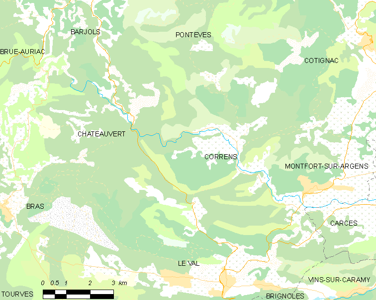 Map of French municipality Correns